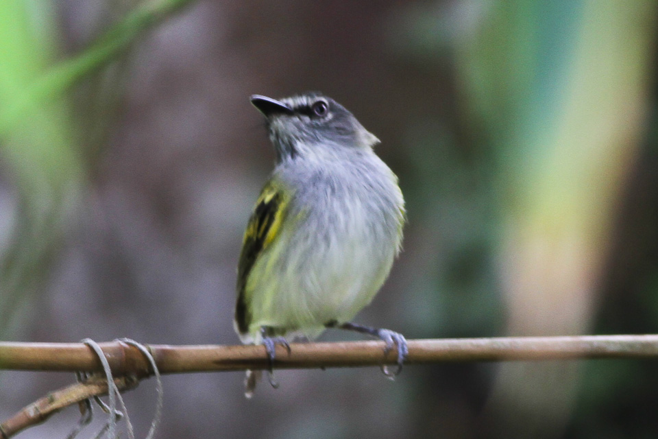 journey Carcago to Popayan